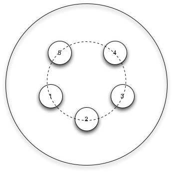 5 hole wheel for Wheel Sizing page. Same as Image:4hole_wheel.png, except it's a 5 hole wheel.